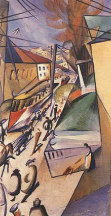 Tram